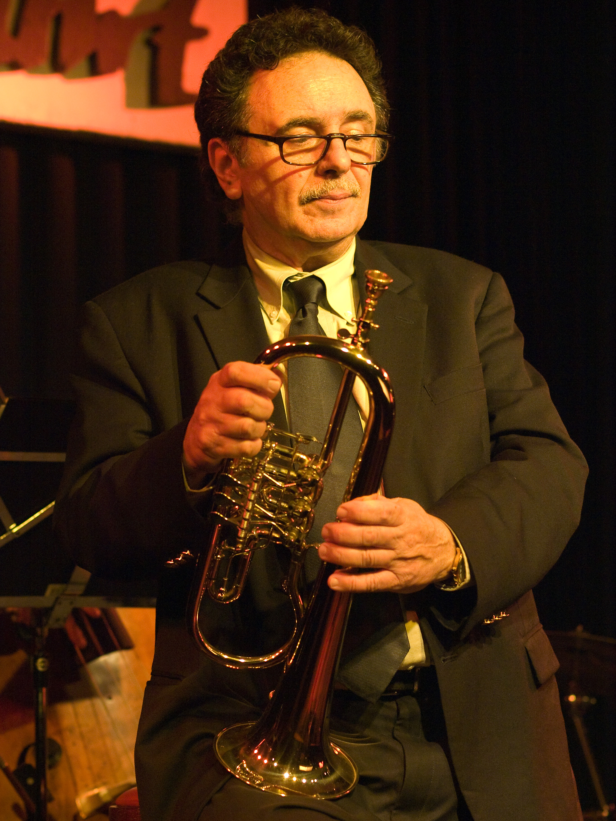 Claudio Roditi, Jazz trumpeter, Picture taken in Jazz Club Unterfahrt, Munich/Bavaria